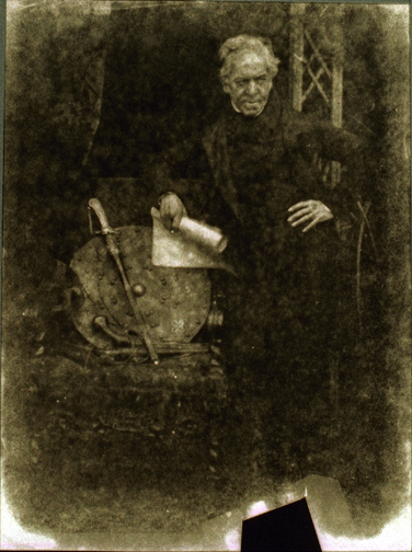 Sir William Allan (1782 – 1850), Scottish historical painter